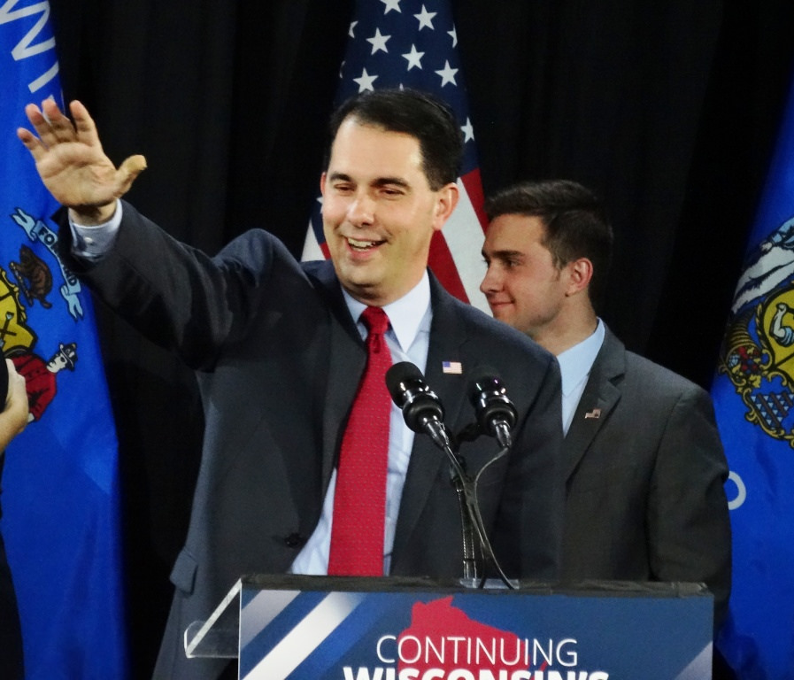 Scott Walker waving at supporters at his victory party for winning the 2014 Wisconsin Governor's race.